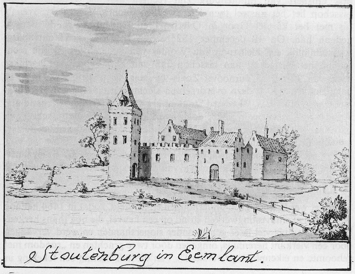 Stoutenburg near Leusden